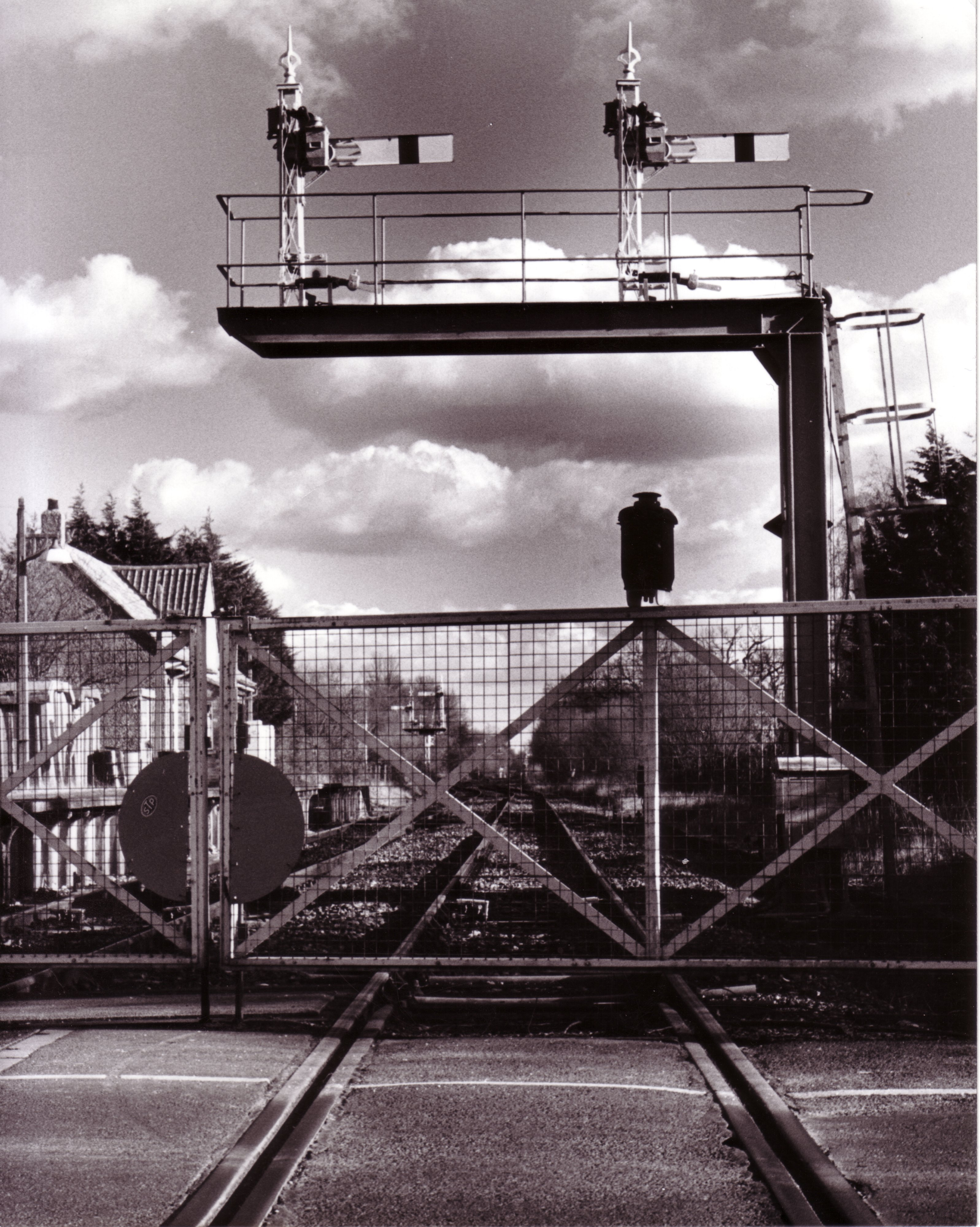 Photograph of Marchwood railway station and level crossing gates, circa 1996. Photograph by James Allen. Scanned from an original black and white print by James Allen.